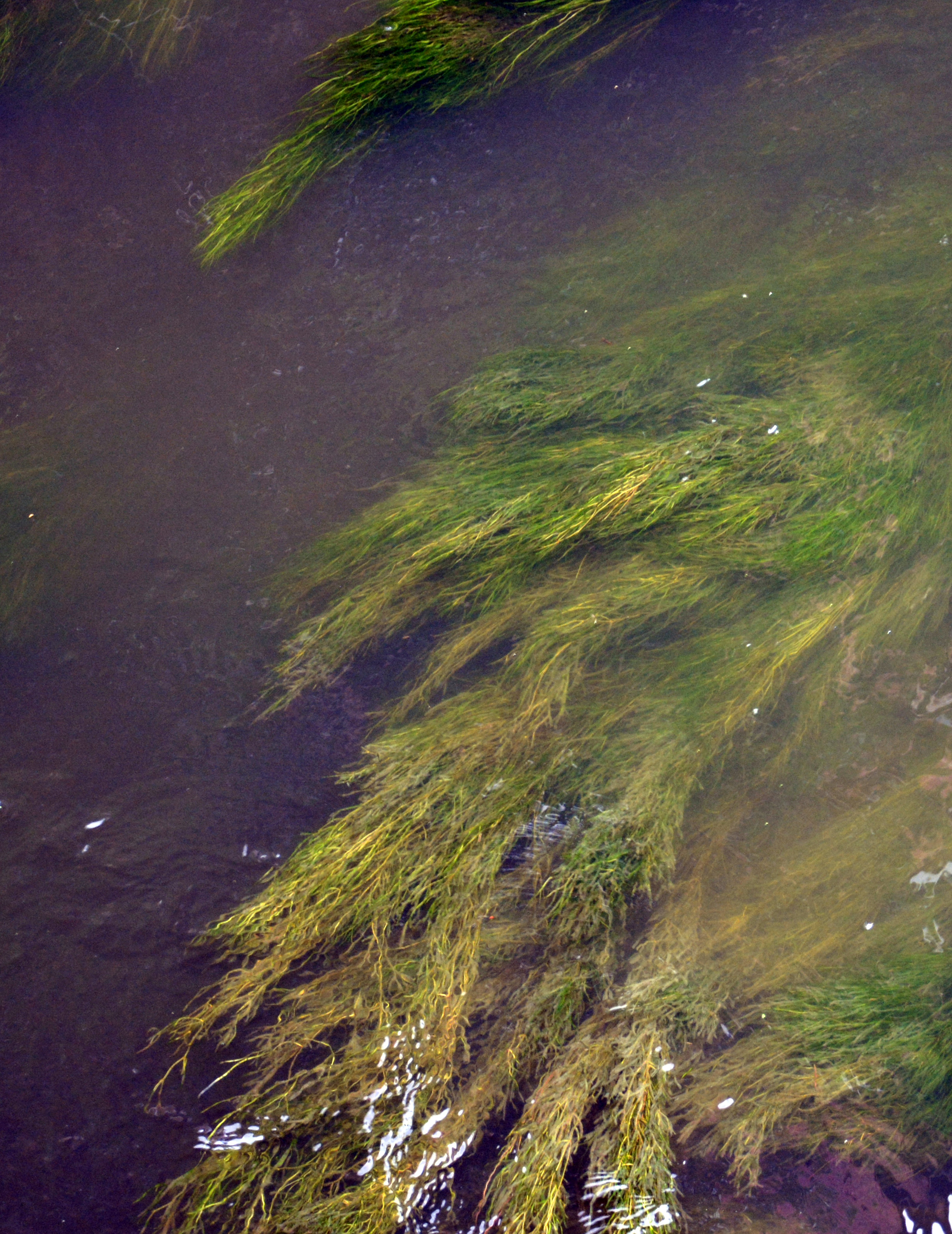 La Marque (river), leaving Villeneuve d'Ascq at the place named "Pont du Breucq" (old wooden bridge, rebuilt in stone by the commune of Flers in 1808, then destroyed during the second world war in May 1940, and rebuilt in May 1941 ... and equipped with new guardrails in 2001. this river has long been polluted by factories and communes situated upstream, and on this section by textile factories and teitureries (Descat: dyeing and production of this coloring matter, then Bayer (chemical dyes ) And Bonami Wibaux (spinning).